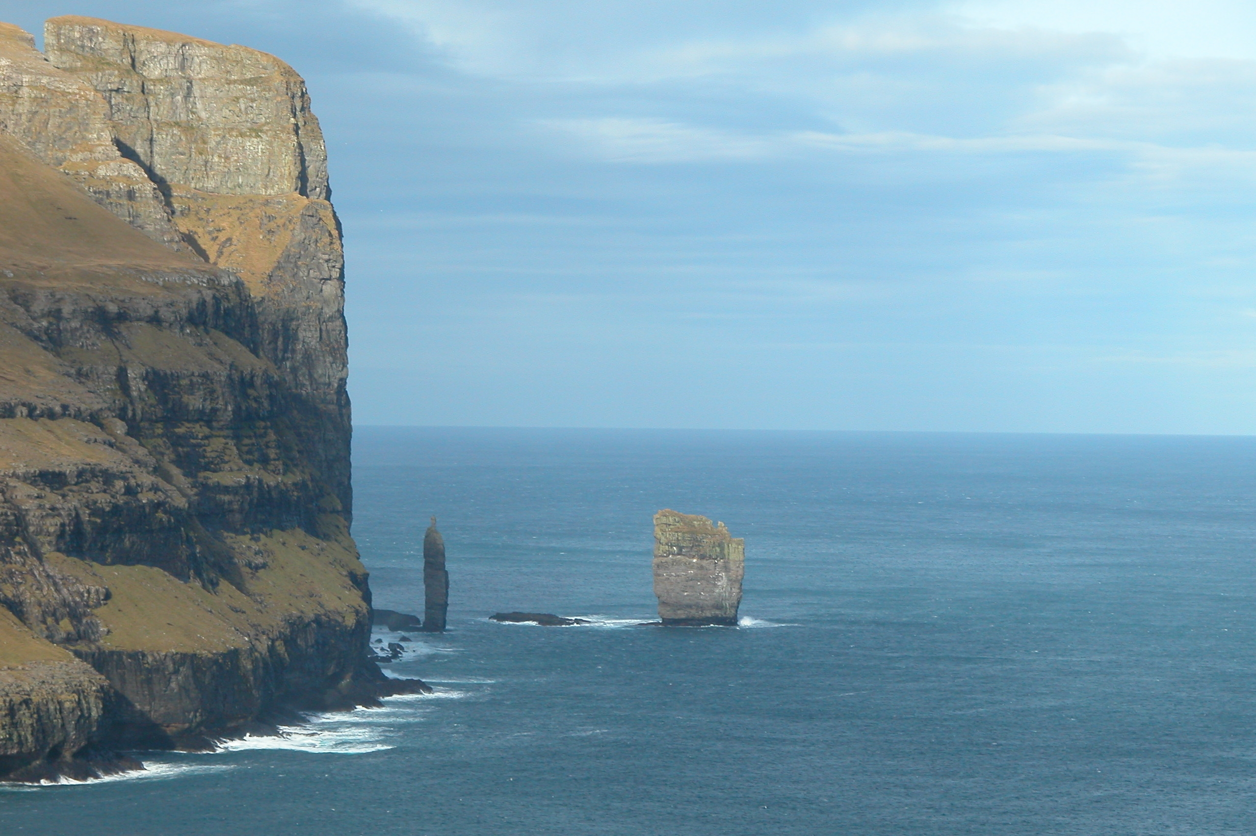 Risin og Kellingin, two famous sea stacks north of Eiði at Eysturoy, Faroe Islands.